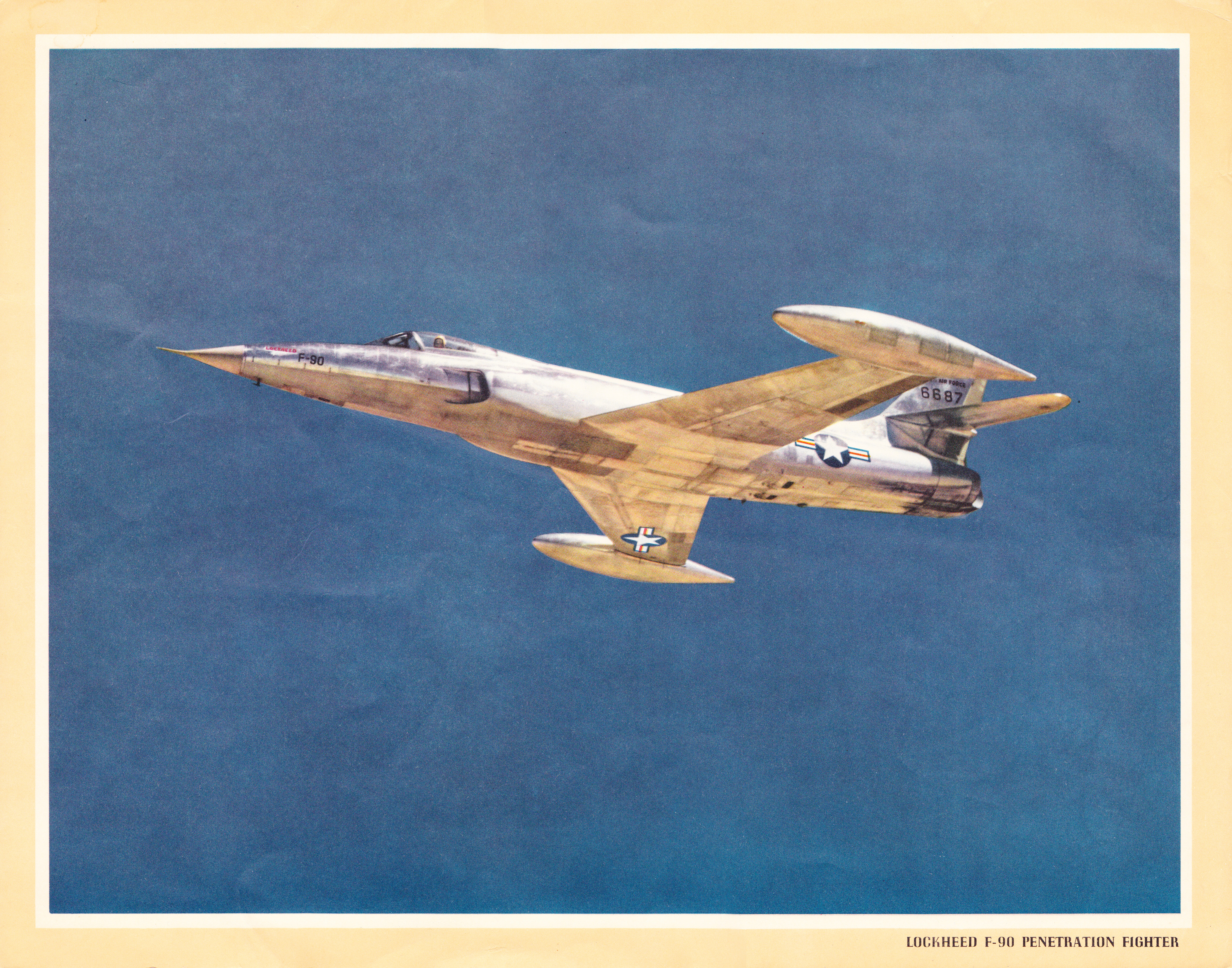 LOCKHEED F-90 PENETRATION FIGHTER